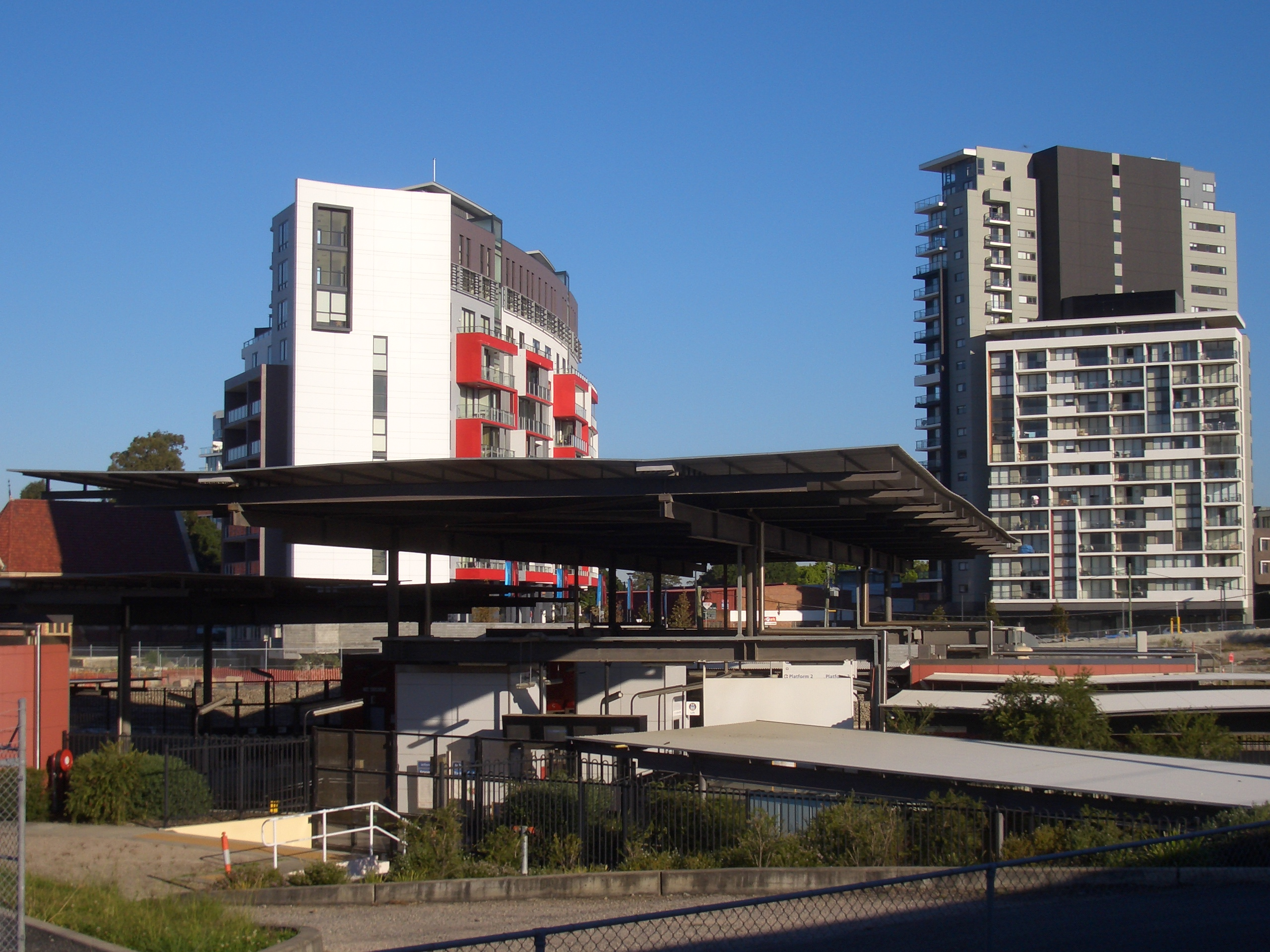 Wolli Creek Railway Station April 2007